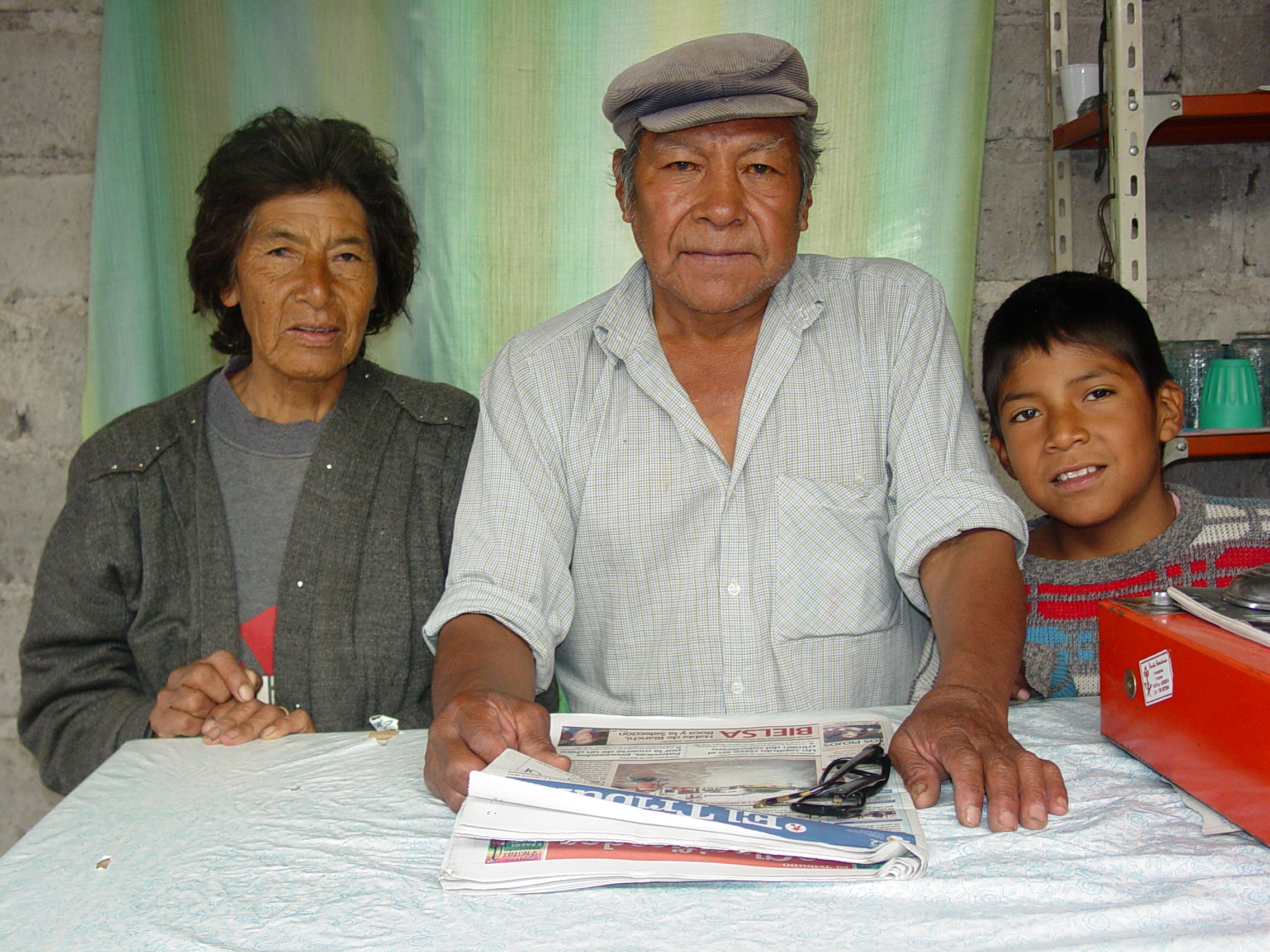 The Tolaba family, proprietors of a roadside cafe en route from Salta to Cachi, northwest Argentina. December 2003.